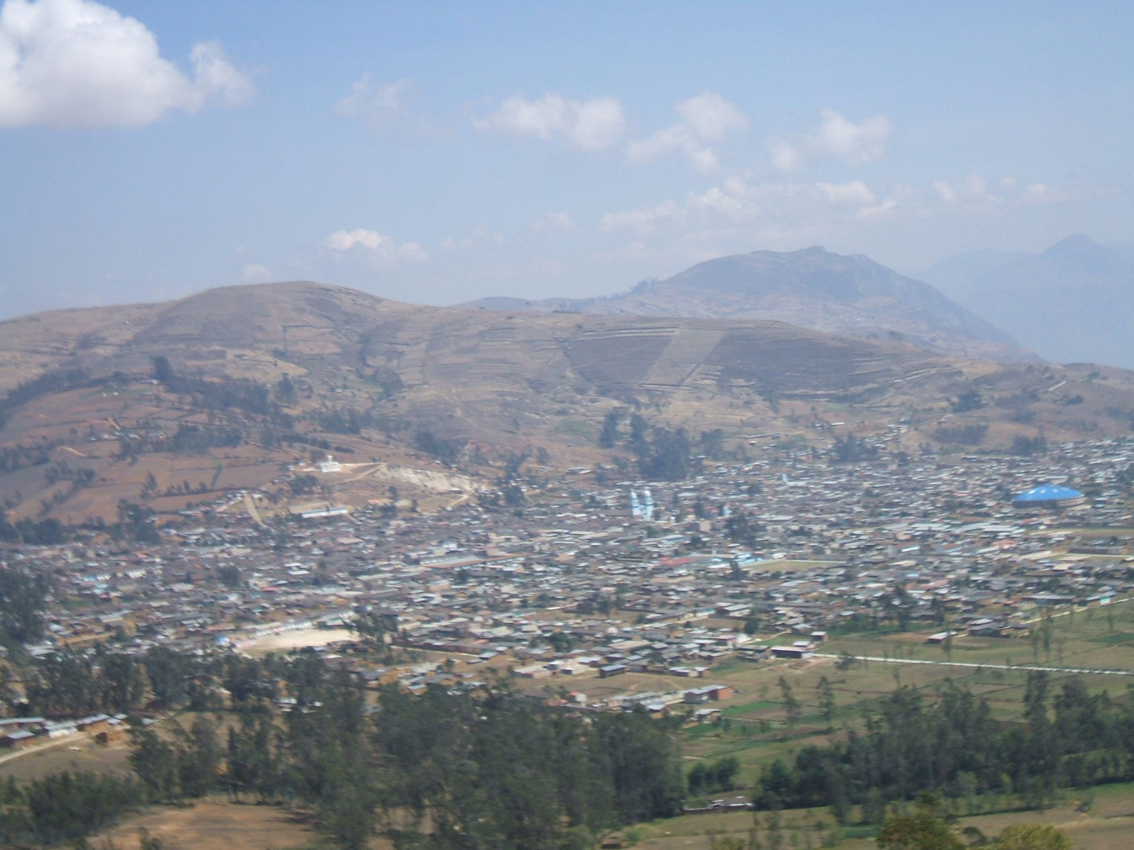 the city of Celendin / la ciudad de Celendin / Das Städtchen Celendin North of/norte de/Norden von Peru